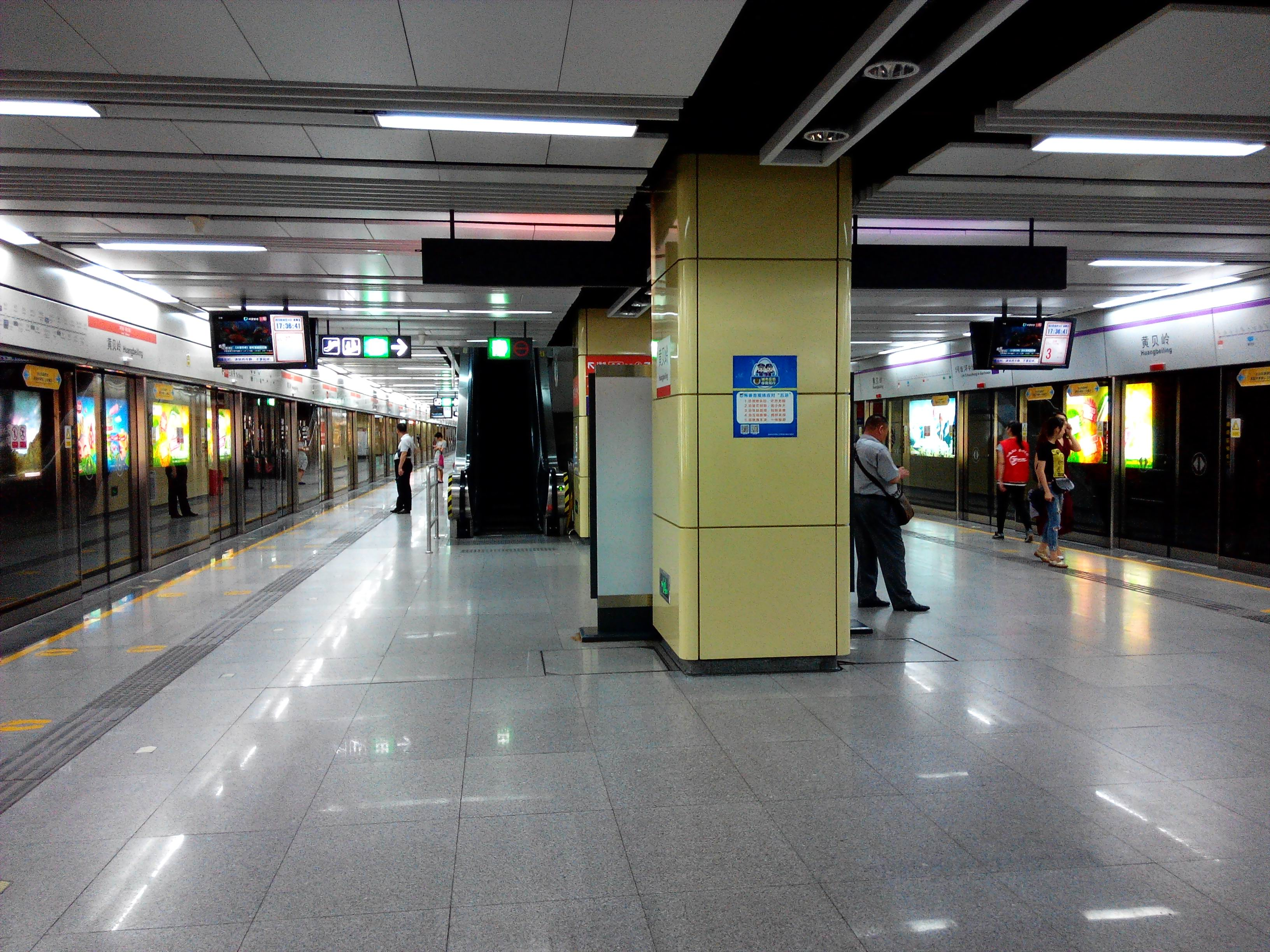 Shenzhen Metro Huangbeiling Station Platform 3 & 4